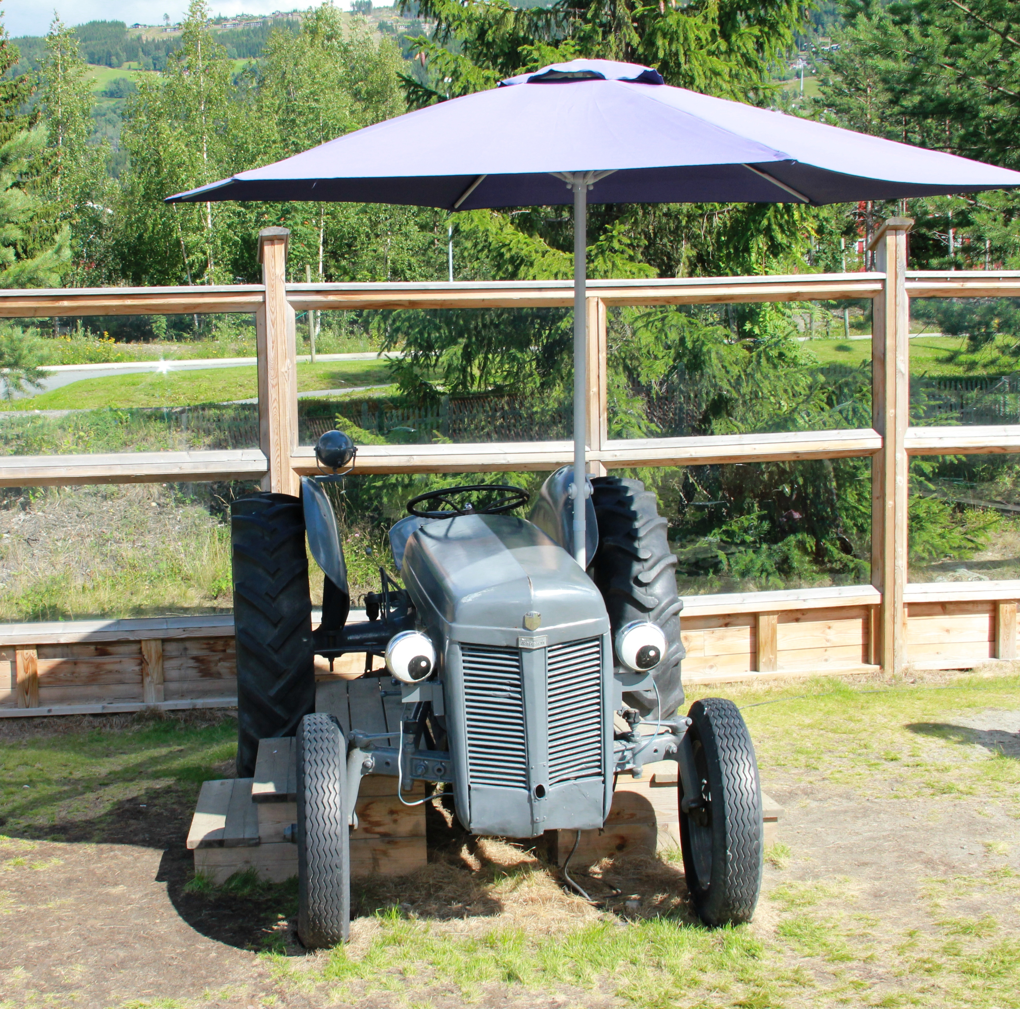 Gråtass, the animated Ferguson TE20. A Norwegian fictional TV-show for children